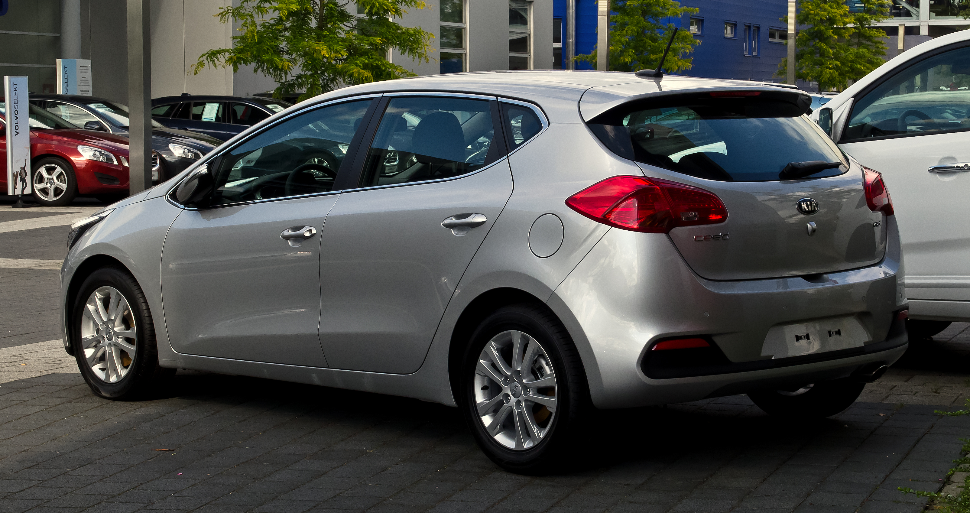 Kia cee'd 1.6 CRDi 128 Vision (EU)